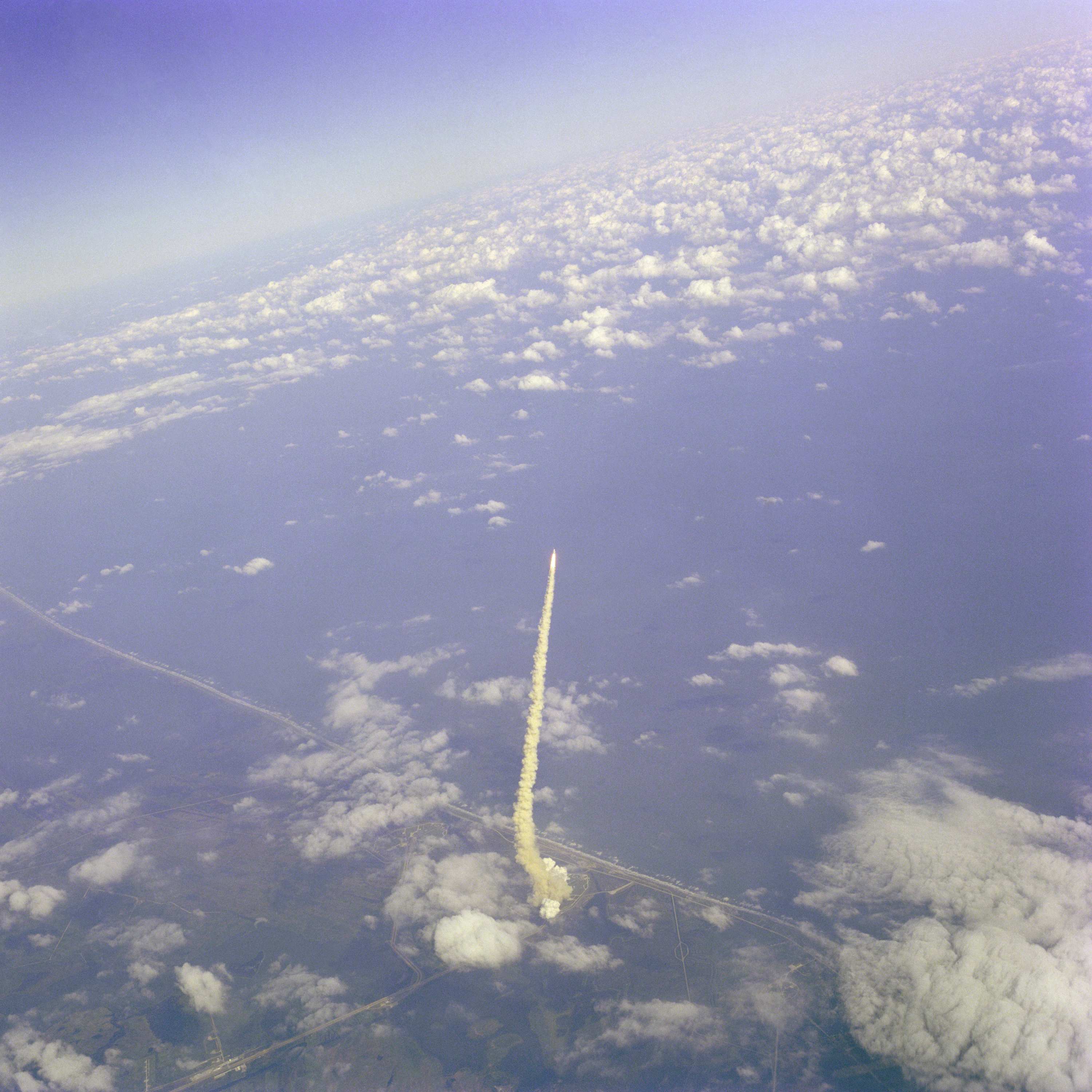 Aerial view of the STS-2 Columbia launch from Pad 39A at the Kennedy Space Center, Florida, taken by astronaut John Young aboard NASA's Shuttle Training Aircraft (STA).